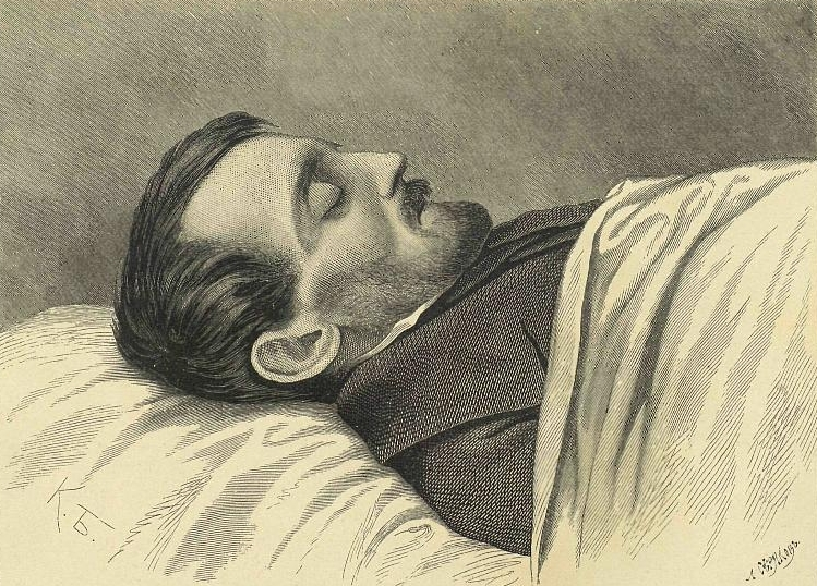 Vissarion Belinsky